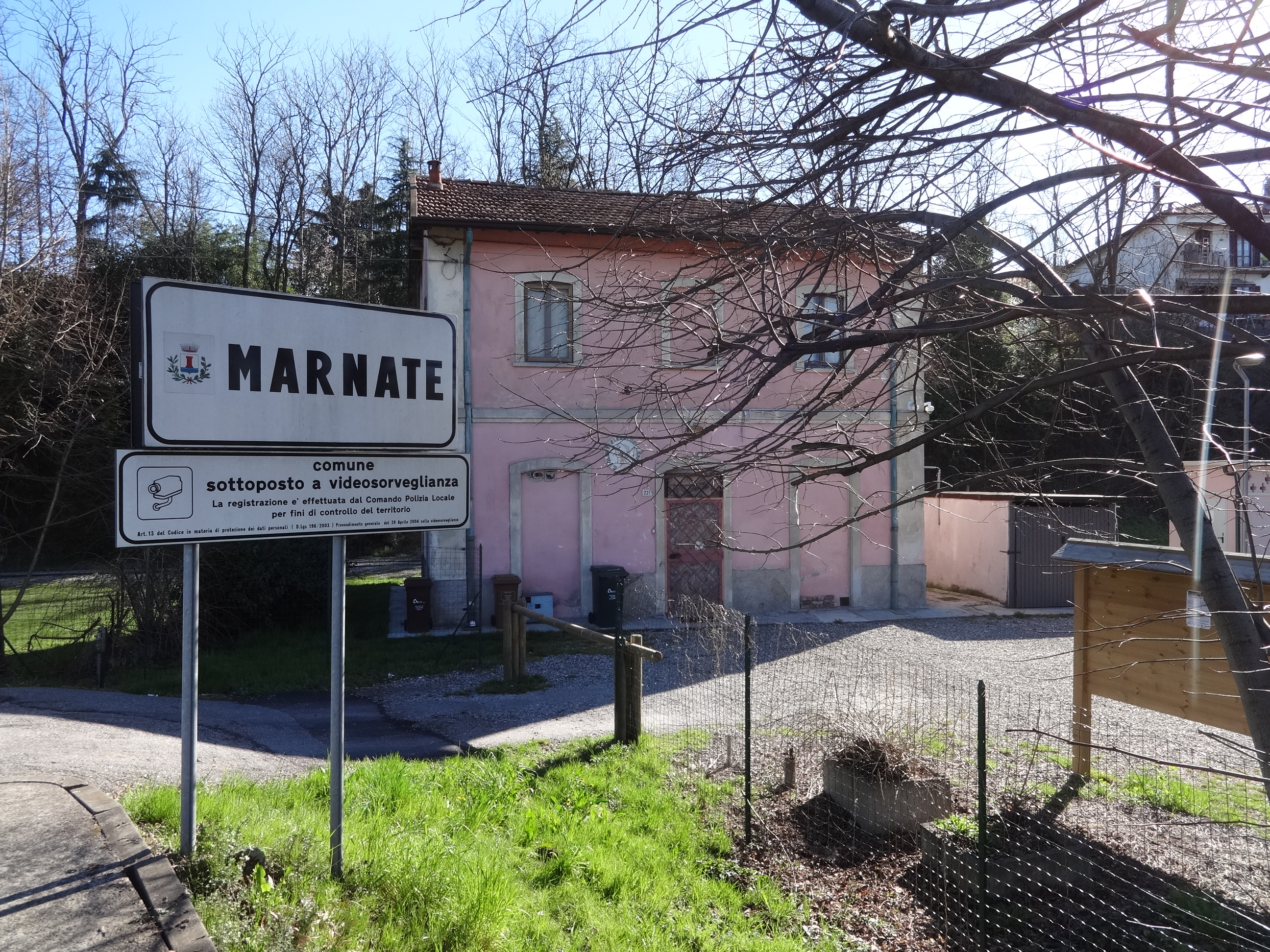 Western entrance to Marnate (Via Valle)